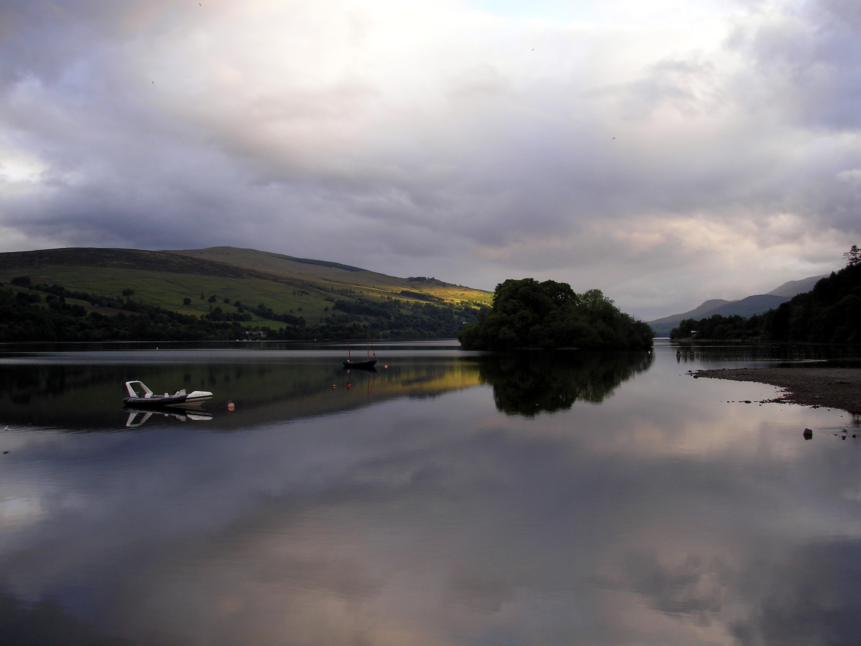 Loch Tay viewed from Kenmore on a cloudy day.